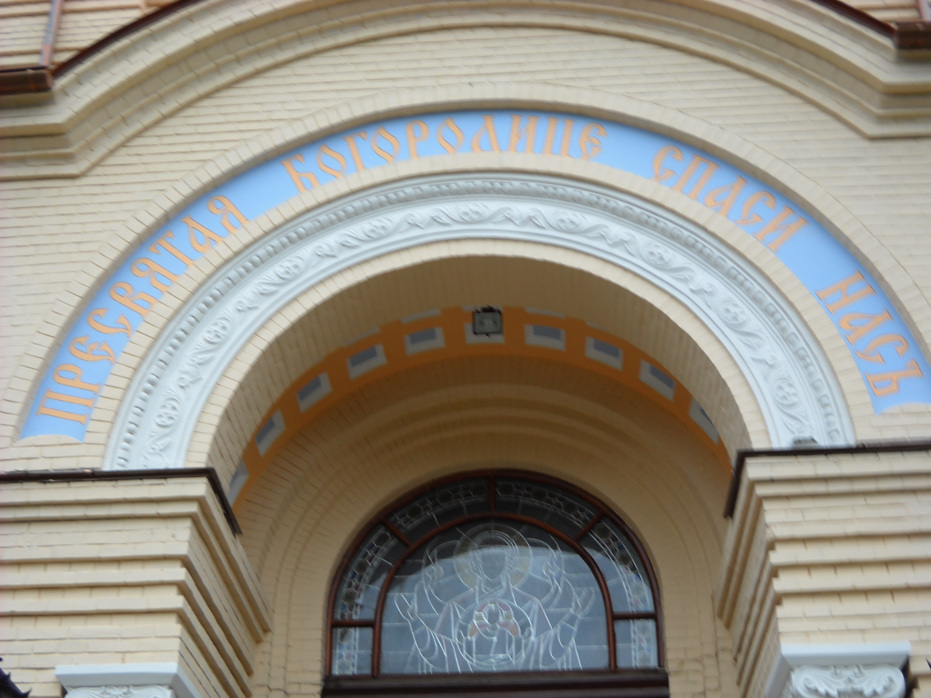 Orthodox Church of Revelation of the Holy Mother of God in Vilnius. Main entrance.